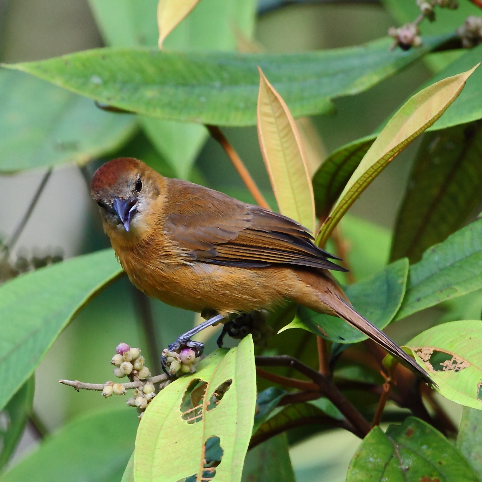 Flame-crested Tanager (female) at Restiga de Bertioga State Park - SP - Brazil